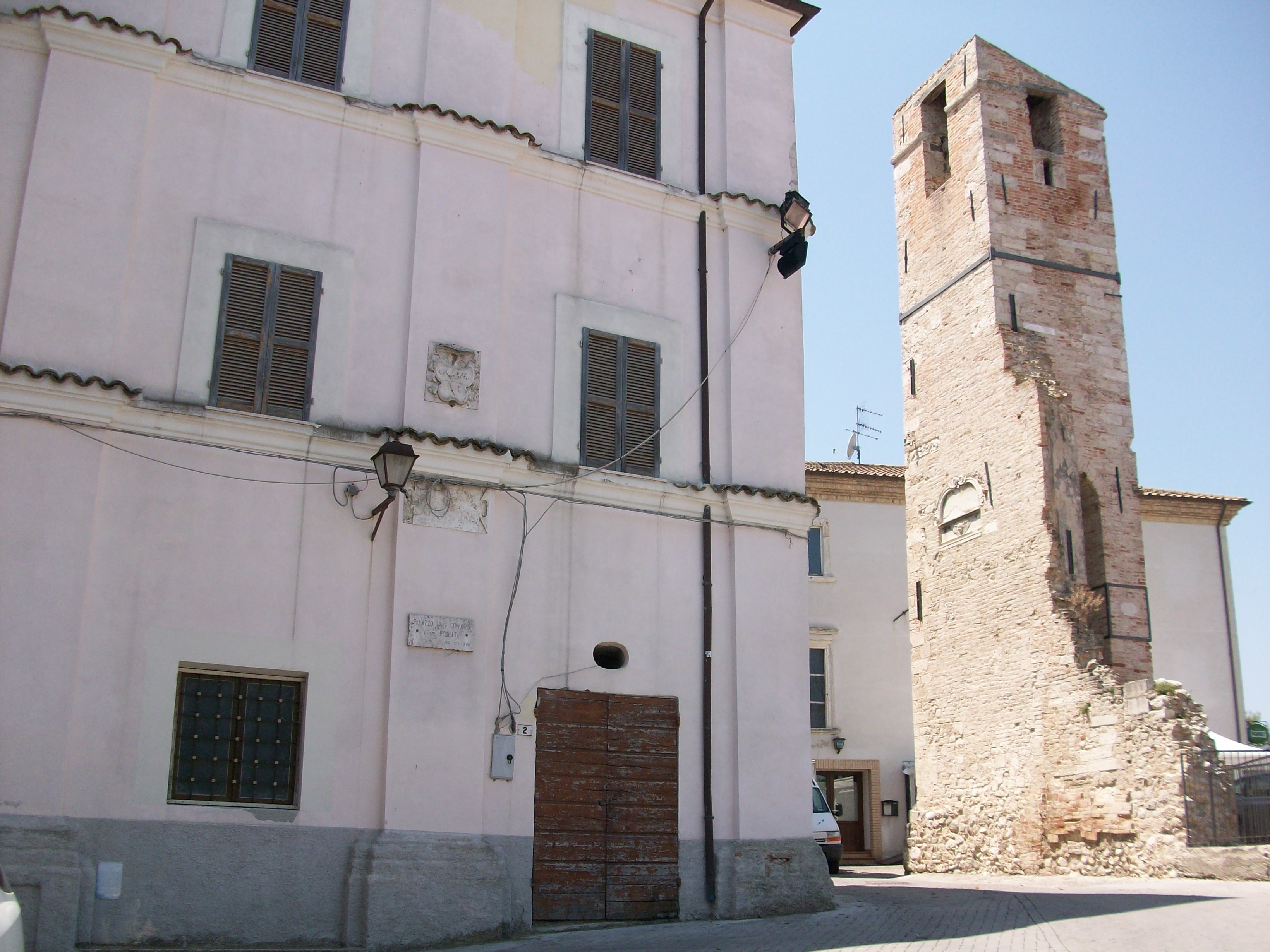 Ancarano main square